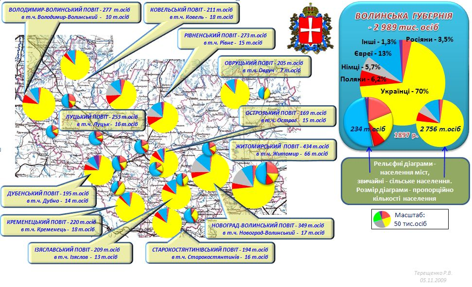 The population of Volyn province according to Census 1897